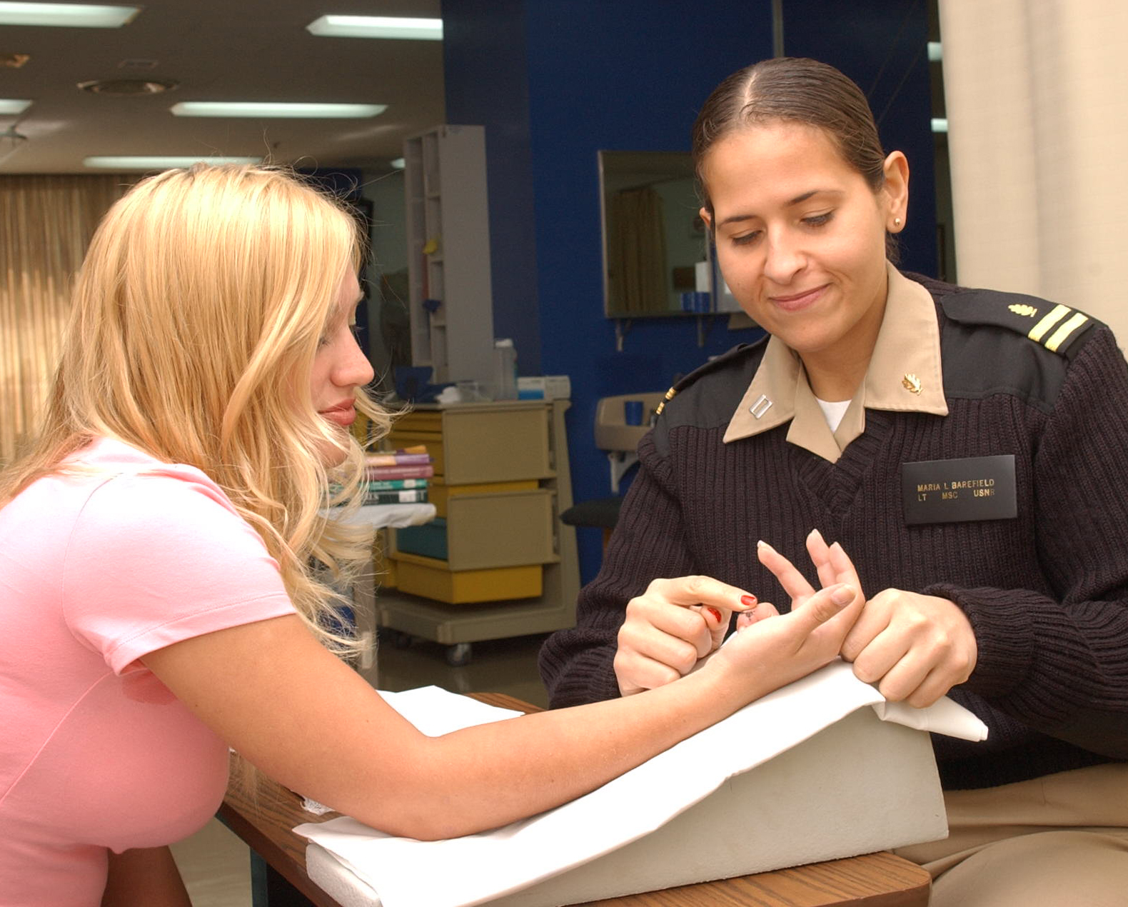 U.S. Naval Hospital, Yokosuka, Japan (Apr. 9, 2003) -- Navy Occupational Therapist Lt. Maria Barefield (right) provides hand care for a family member in the Physical Therapy Department . Therapists are celebrating Occupational Therapy Month in Apr. Barefield and other healthcare professionals provide medical services to the forward-deployed U.S. Seventh Fleet and beneficiaries who support the Fleet throughout mainland Japan. U.S. Navy photo by Tom Watanabe. (RELEASED)